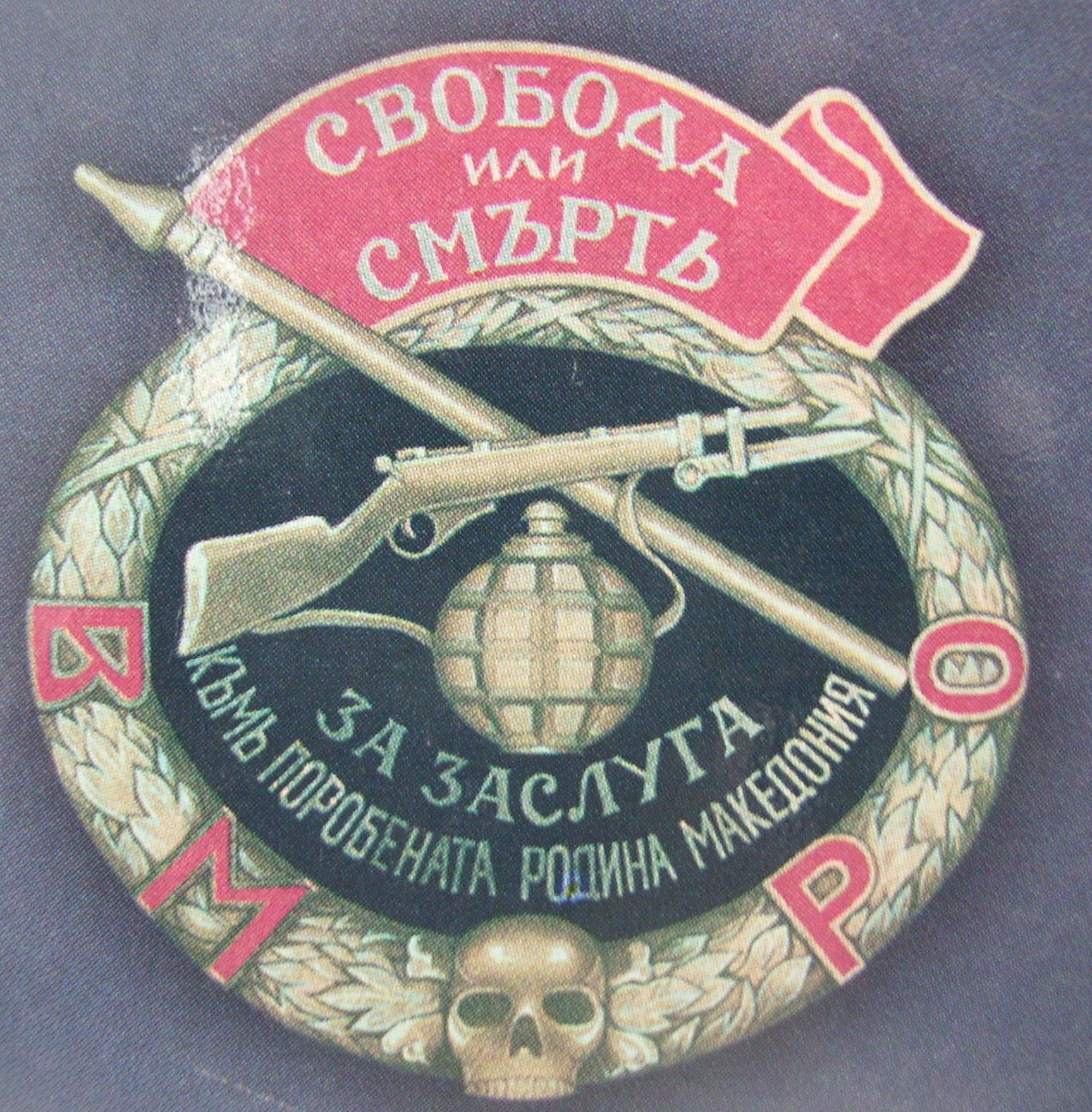 IMRO merit badge, from National milittary-history museum Sofia, Bulgaria